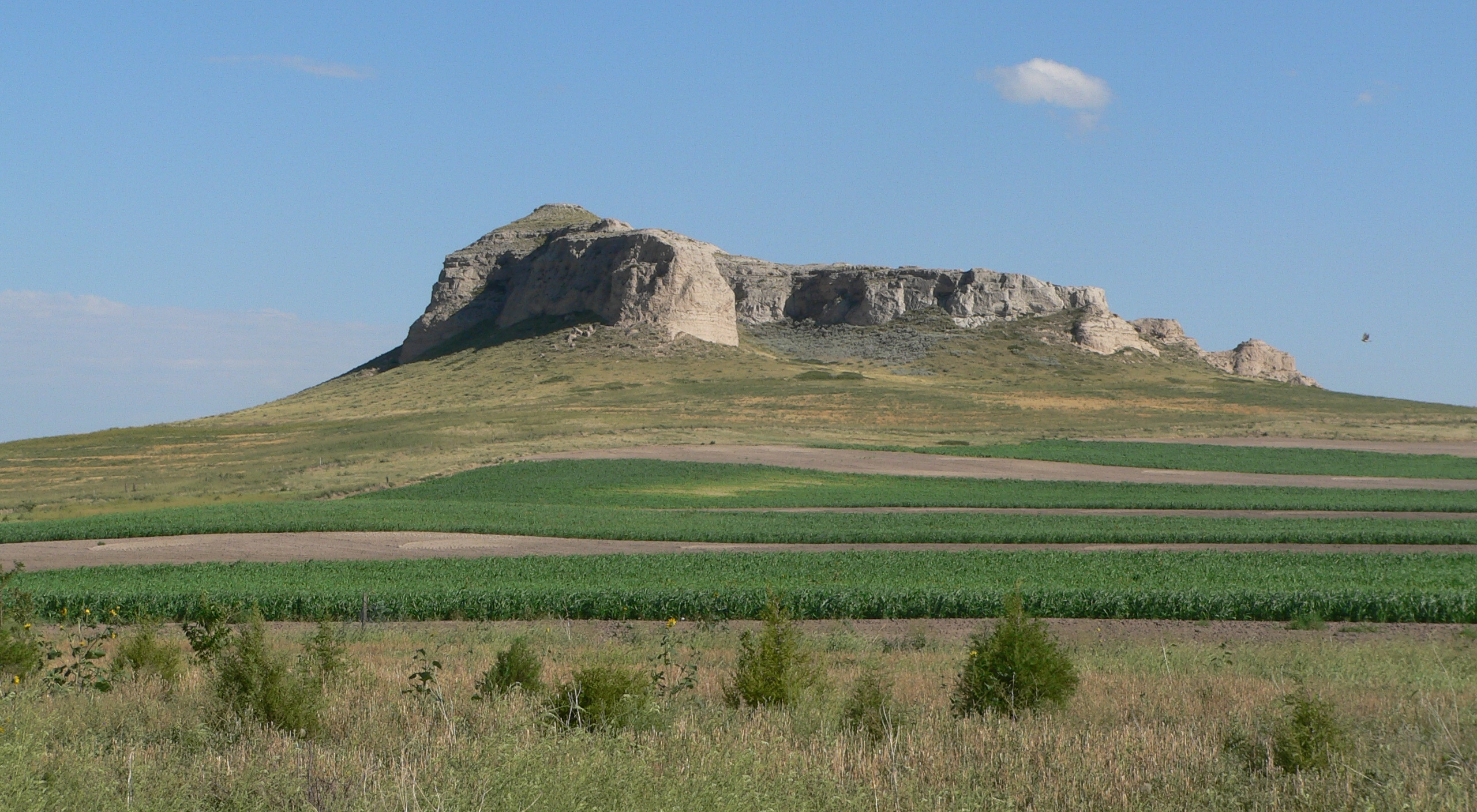 Gabe Rock, west of Harrisburg in Banner County, Nebraska; seen from the northwest. The green crops visible in the foreground are corn.